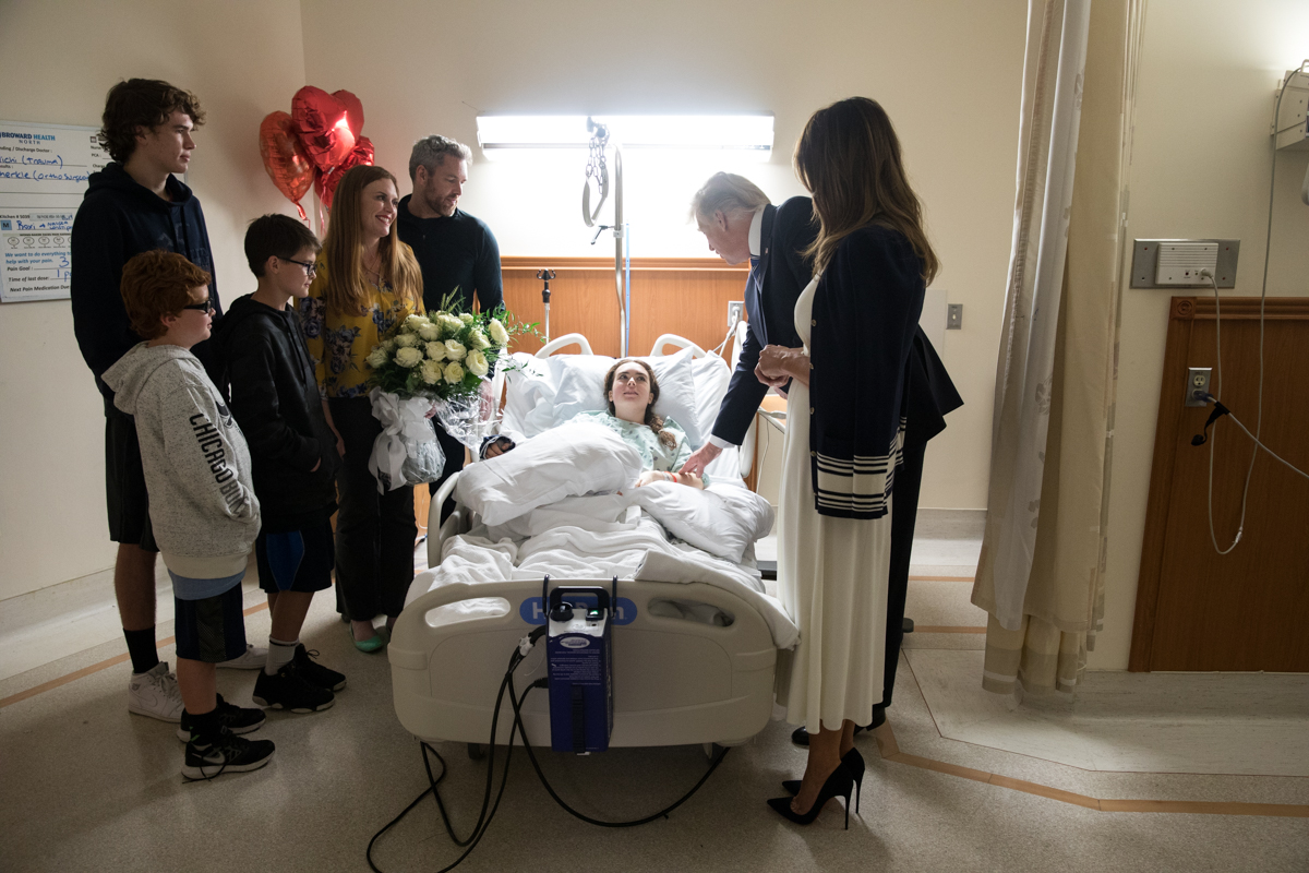 President Donald J. Trump and First Lady Melania Trump visit Marjory Stoneman Douglas High School student Maddy Wilford her family | February 16, 2018 (Official White House Photo by Shealah Craighead)